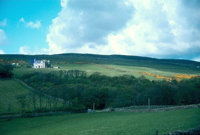 Wood at Finstown, Mainland, Orkney taken from the A965 One of the few woods on Orkney. The house in the background is Binscarth. This photo was taken in 1974.